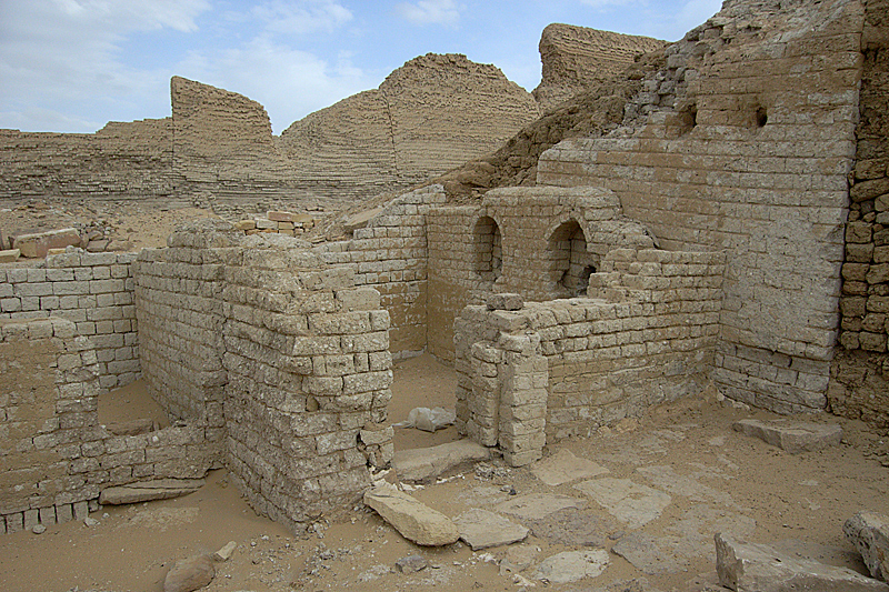 Mud-brick subsidiary building beside the court of the south temple, Dimai, el-Fayyum, Libyan desert, Egypt